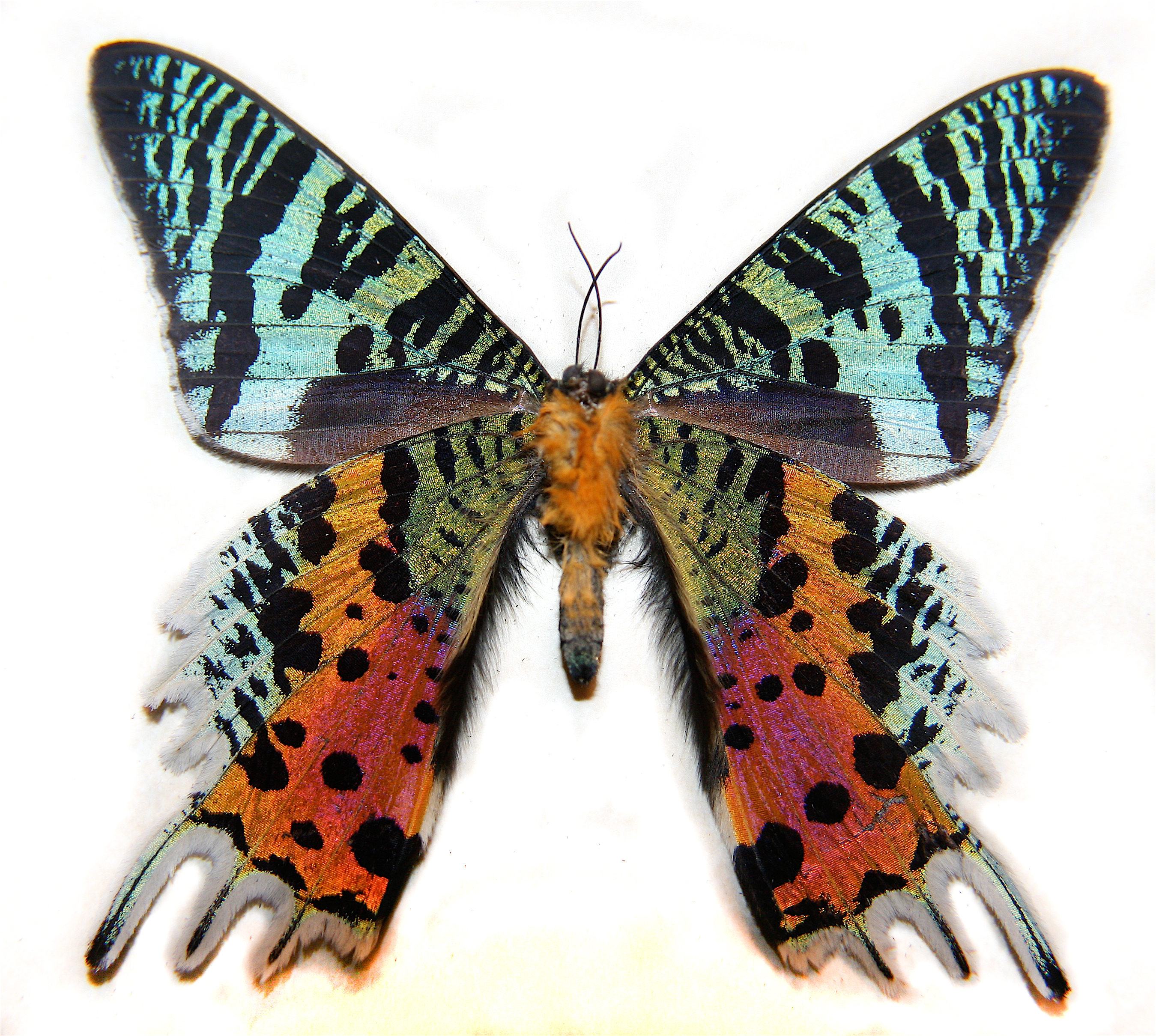 A Chrysiridia madagascarensis. A better crop than the previous photo.